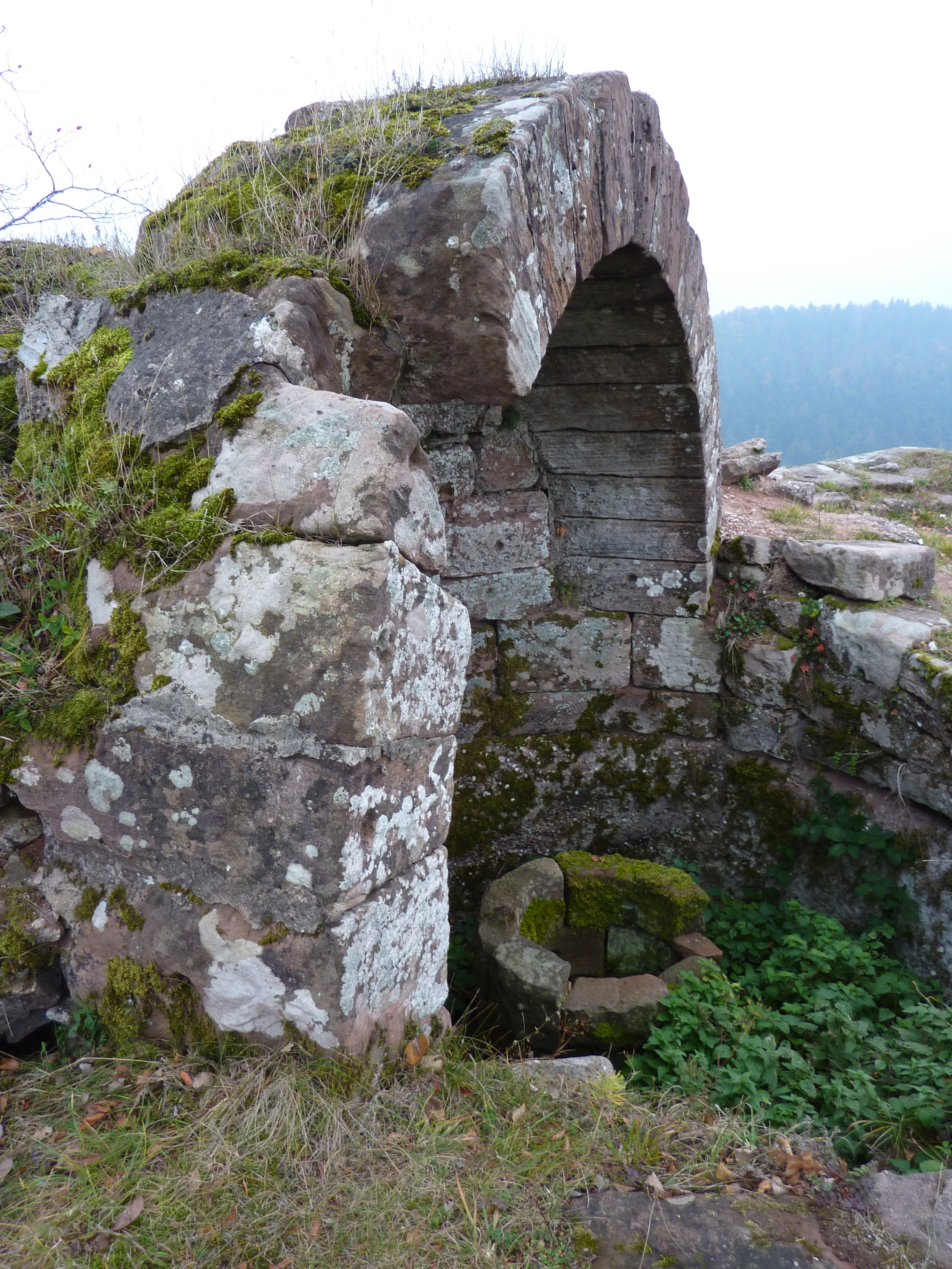 Filtering water tank on top of the castle of Grand Ochsenstein, Bas-Rhin, France.